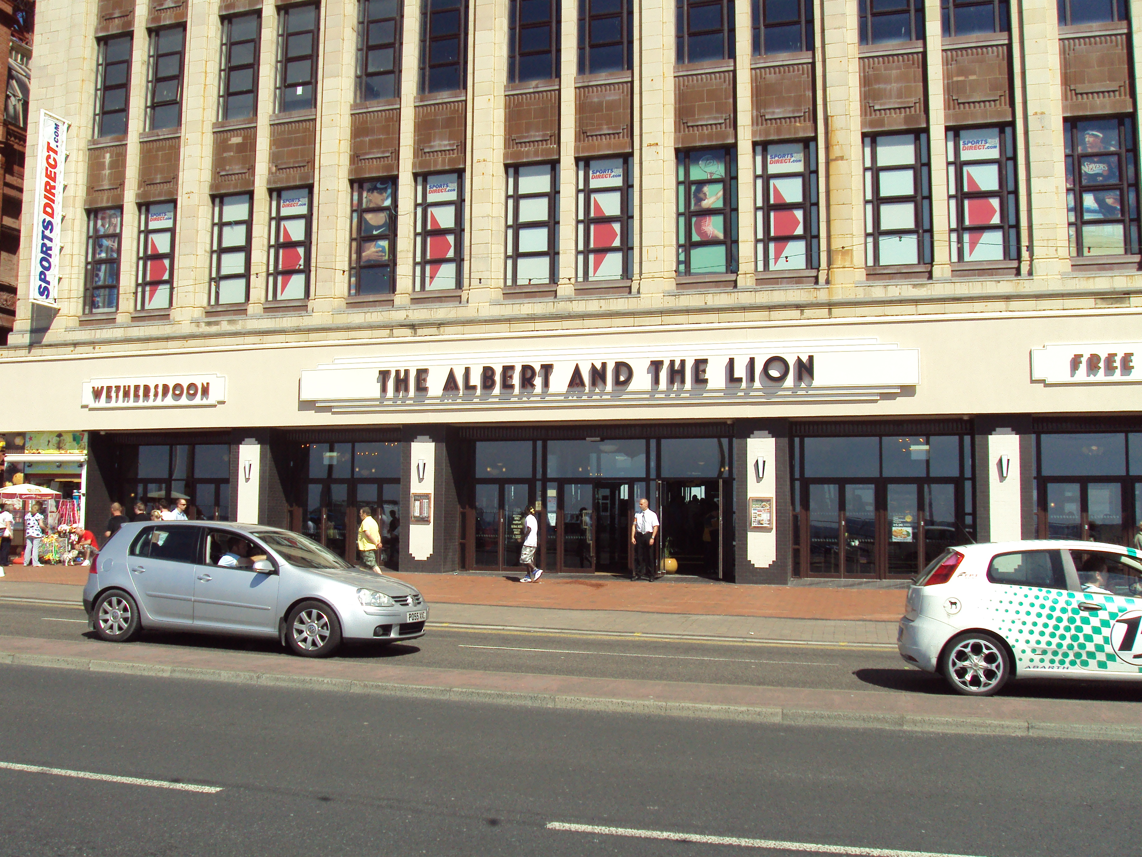 The Albert and the Lion, a Wetherspoon pub on Blackpool Promenade, Lancashire. (Nice to see a tribute to Stanley Holloway, Mtaylor848 (talk) 16:10, 21 September 2010 (UTC))